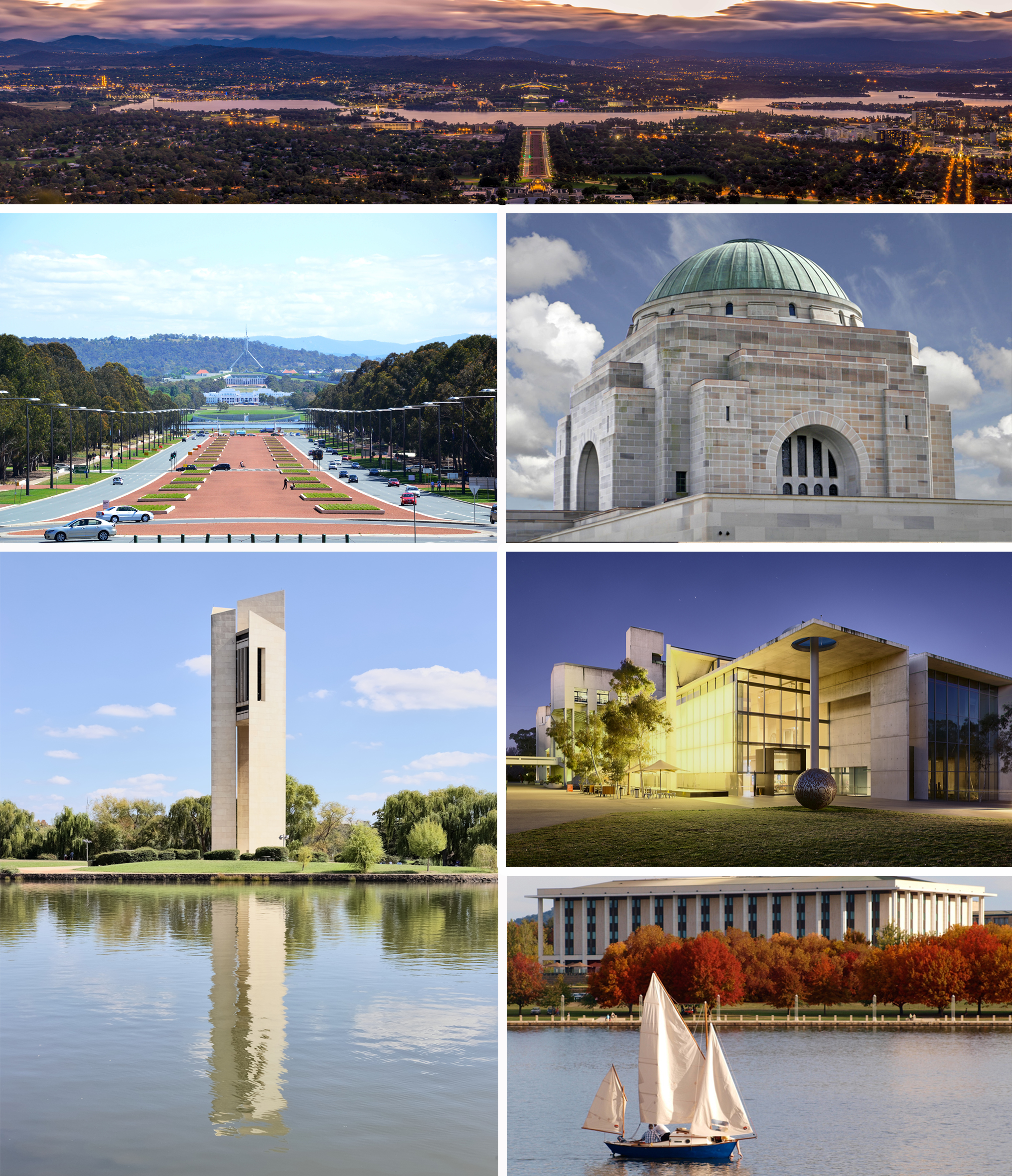 File:Canberra, ACT at dusk.jpg File:Old and New Parliament Houses (8215959691).jpg File:Australian war memorial.jpg File:National Carillon, Canberra ACT.jpg File:National Gallery at dusk, Canberra ACT.jpg File:Autumn on Lake Burley Griffin.jpg